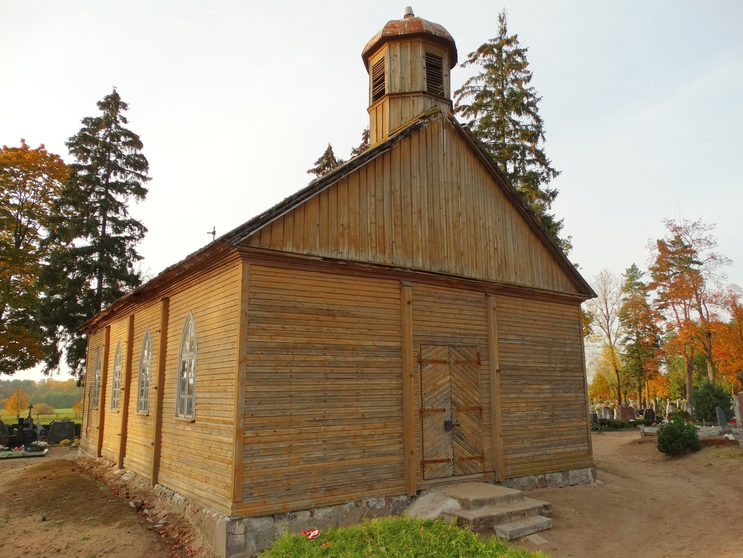 Roman Catholic сhapel in cemetery, Kudirkos Naumiestis, Lithuania